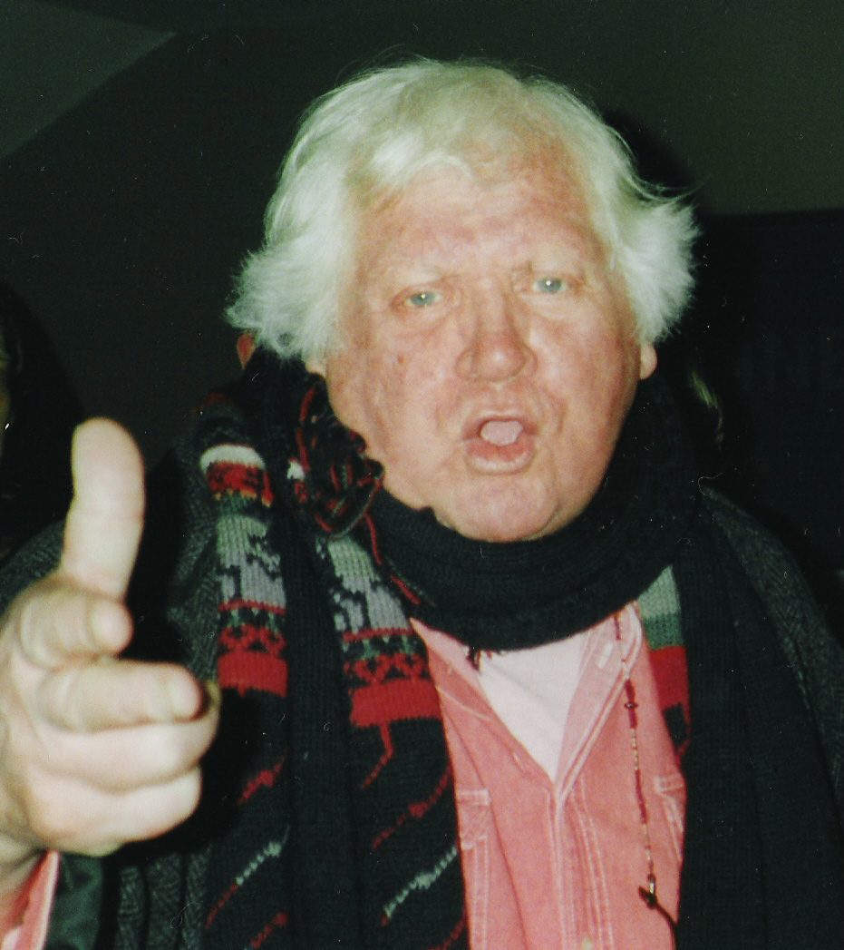 Ken Russell and myself at the premiere of his film 'The Fall of the Louse of Usher' at the Curzon cinema Soho, London.